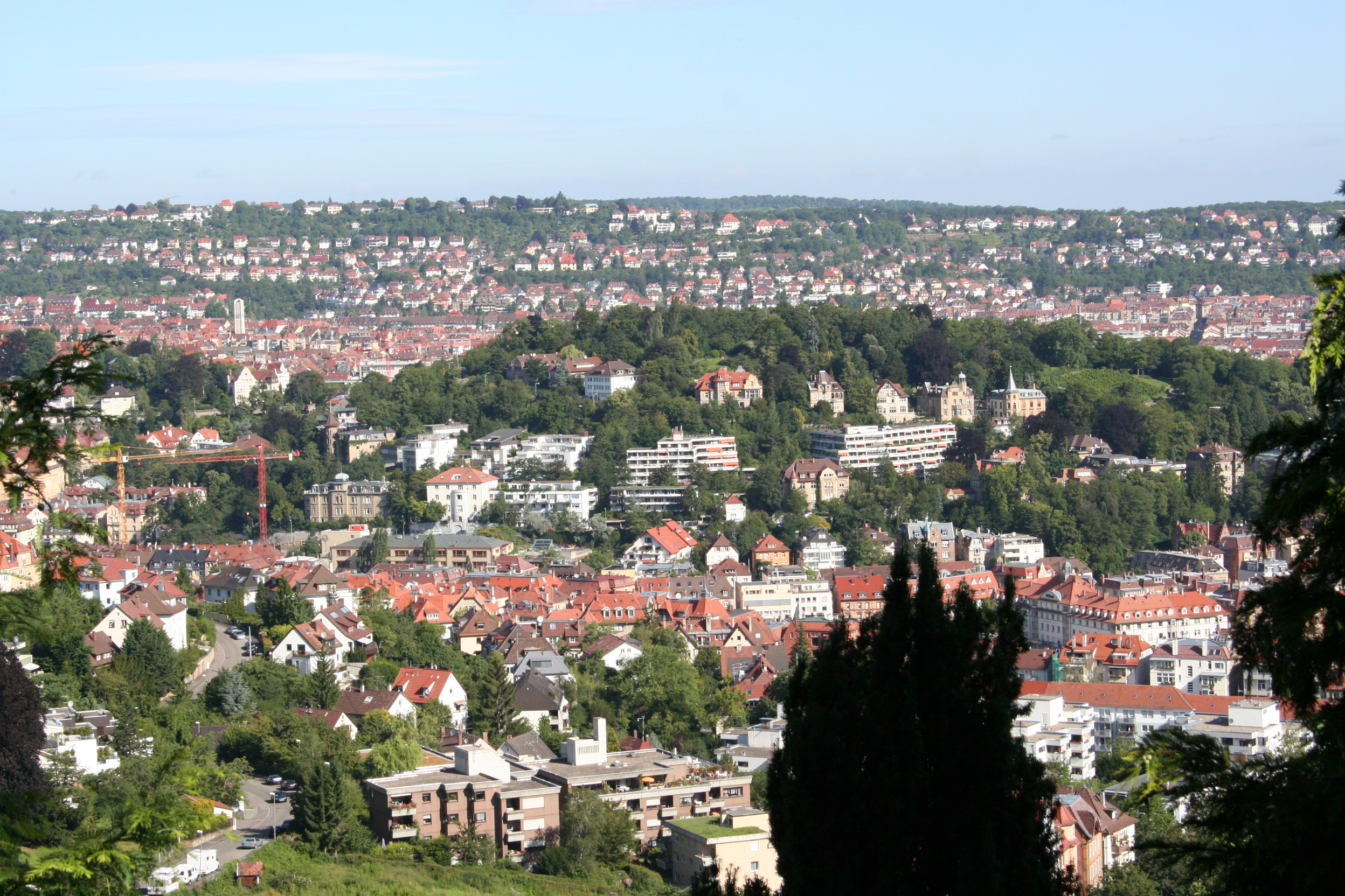 View over Stuttgart-South and Stuttgart-Heslach and the "Karlshöhe", Germany